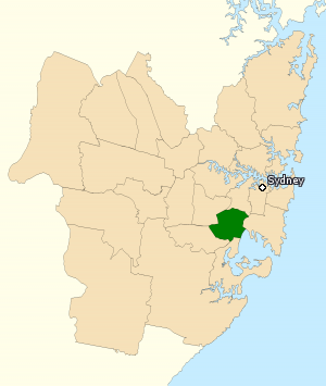 Incorporates or developed using Administrative Boundaries ©PSMA Australia Limited licensed by the Commonwealth of Australia under Creative Commons Attribution 4.0 International licence (CC BY 4.0). Derived from State and Territory Boundaries from the Australian Bureau of Statistics under Creative Commons Attribution 2.5 Australia license (CC BY 2.5 AU)